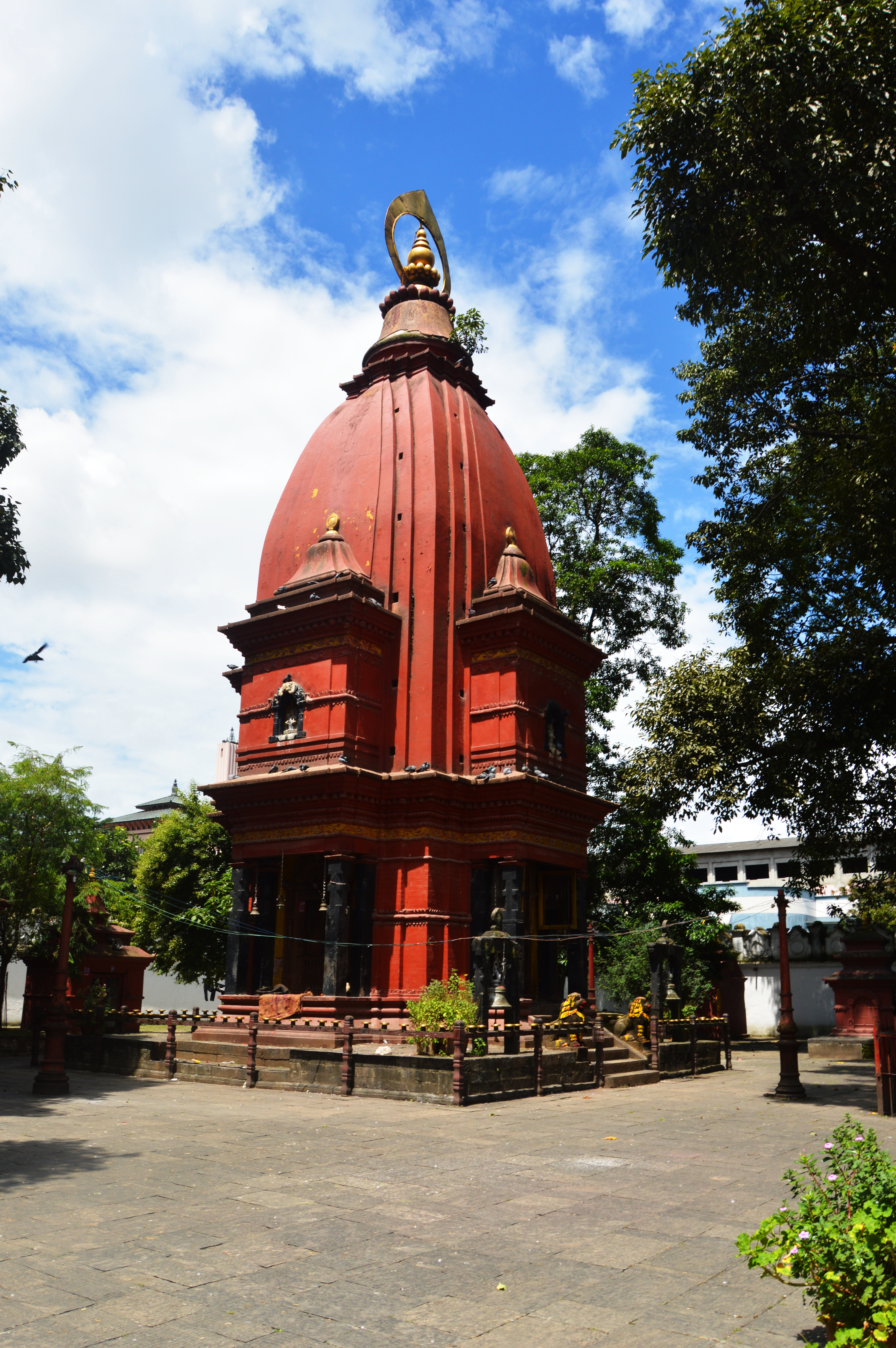 Narayan Temple , Narayana is the Hindu god Vishnu, whose temple is located opposite to the Narayanhiti palace, Kathmandu.The name, Narayanhiti is made up of two words ‘Narayana’ and ‘Hiti’.